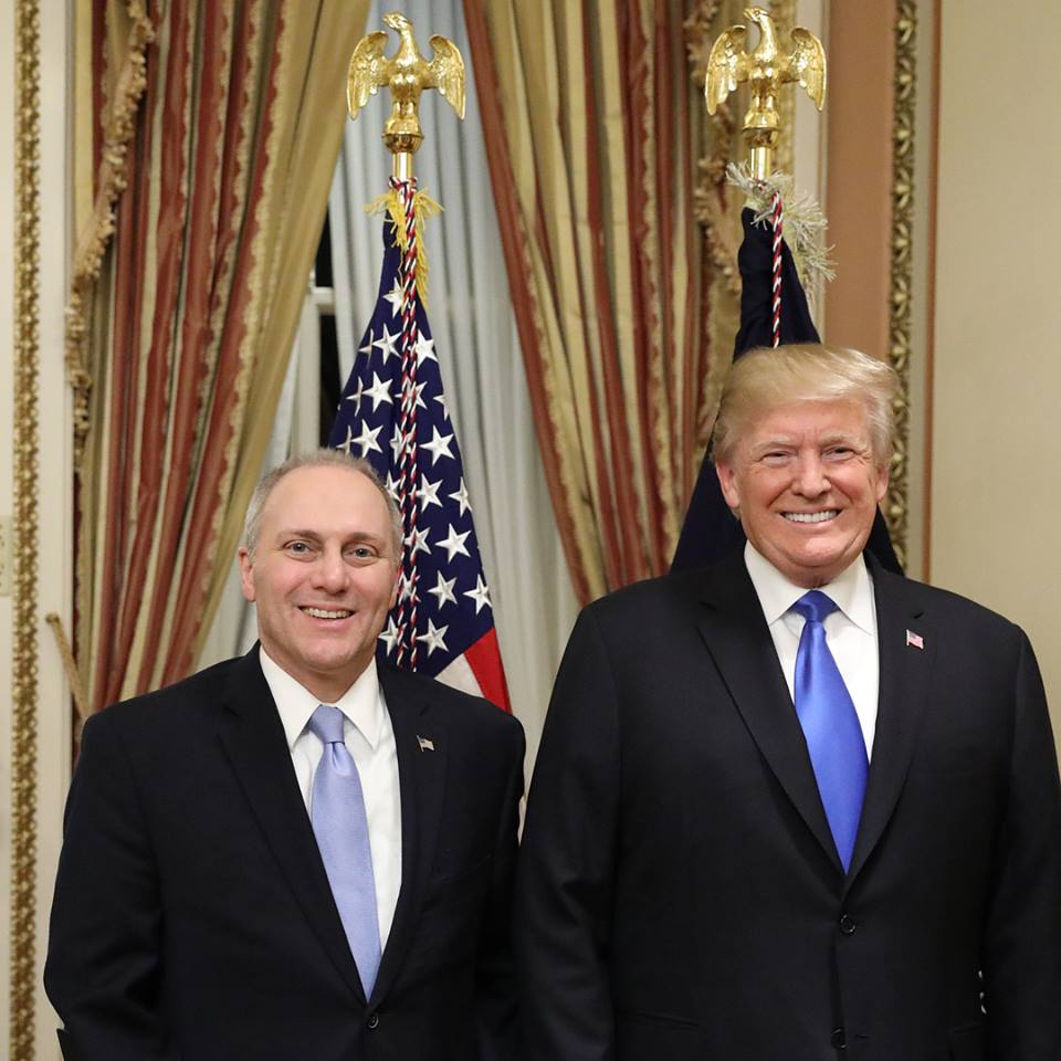 President Donald Trump with Congressman and House Majority Whip Steve Scalise